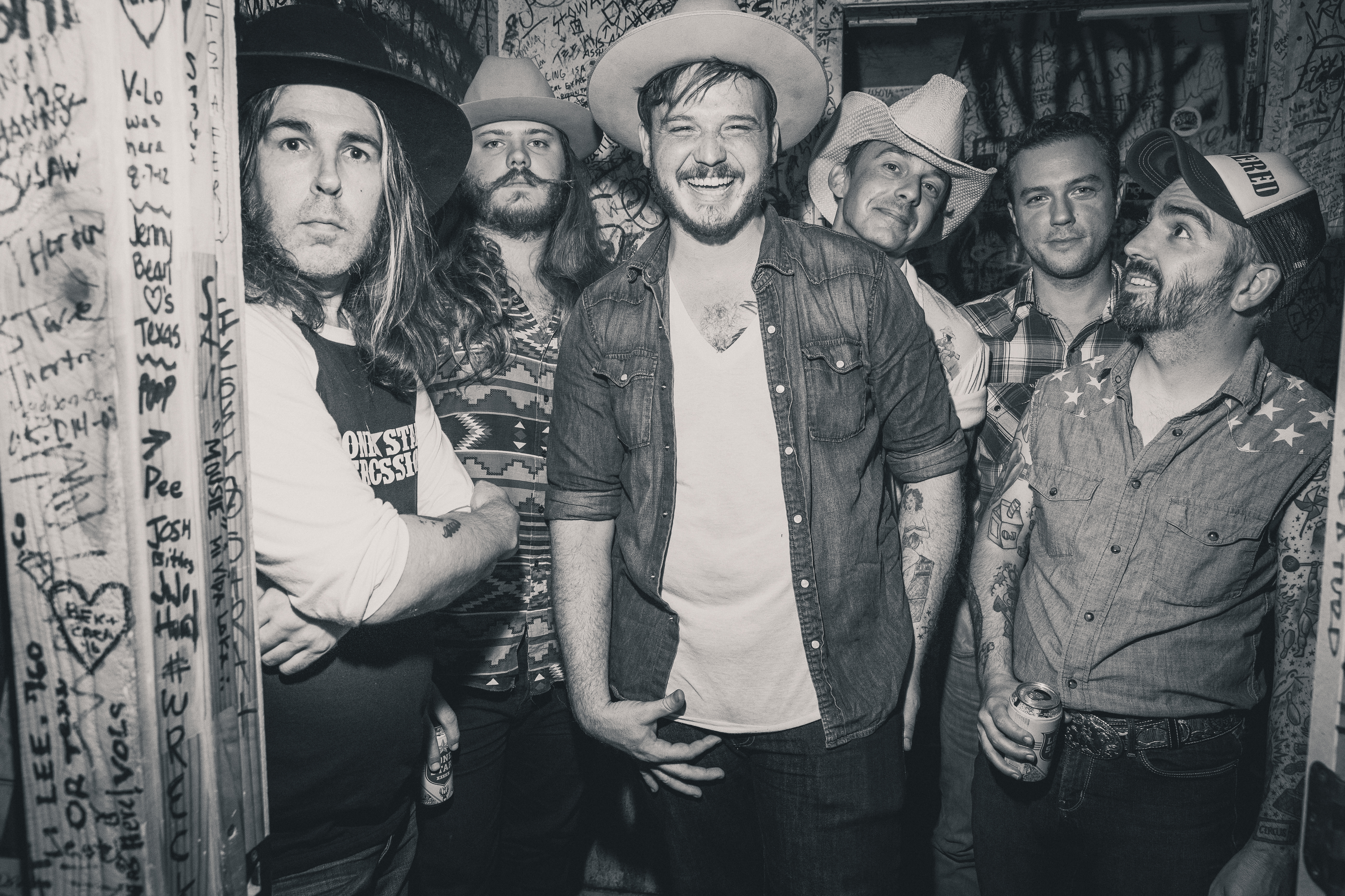 Vandoliers